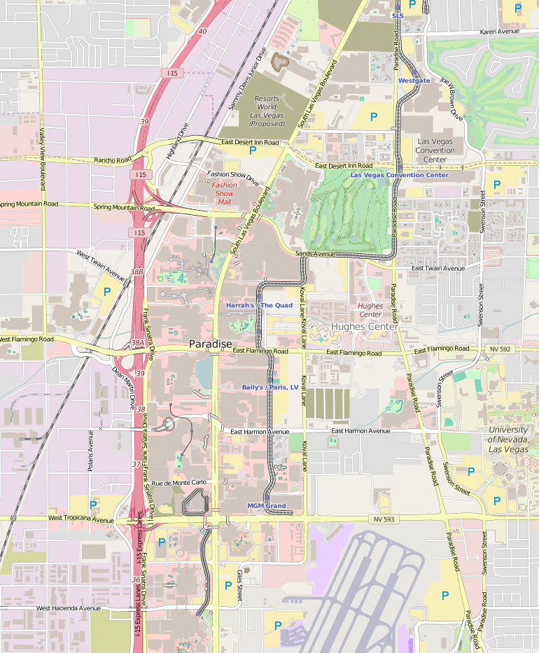 Map of Las Vegas Strip, Nevada. This map of Las Vegas Strip was created from OpenStreetMap project data, collected by the community. This map may be incomplete, and may contain errors. Don't rely solely on it for navigation.